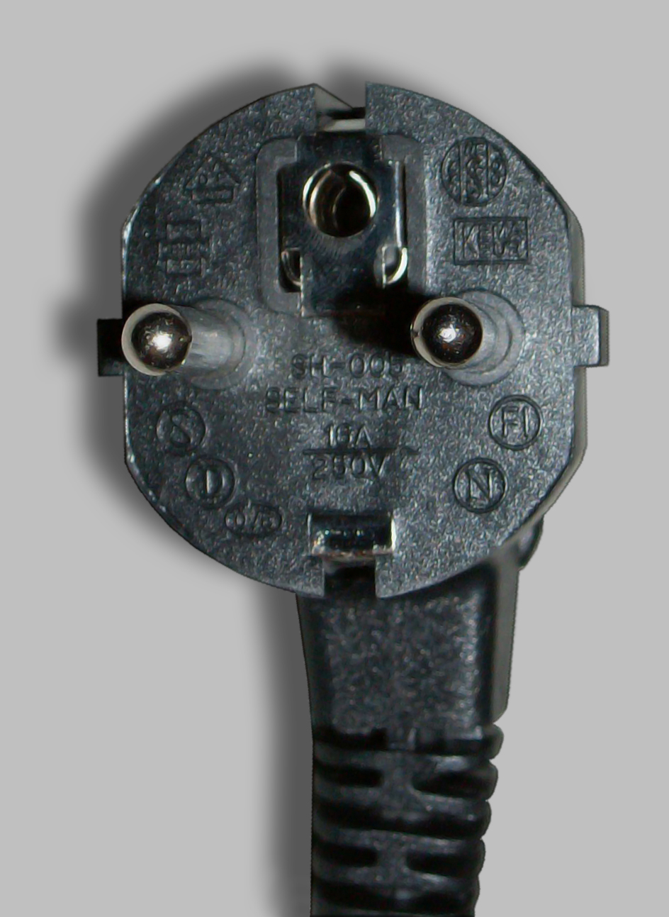 CEE 7/7 hybrid plug, compatible with German type F Schukostecker (CEE 7/4) and French type E (CEE 7/5) plug, up to 250V, earthed